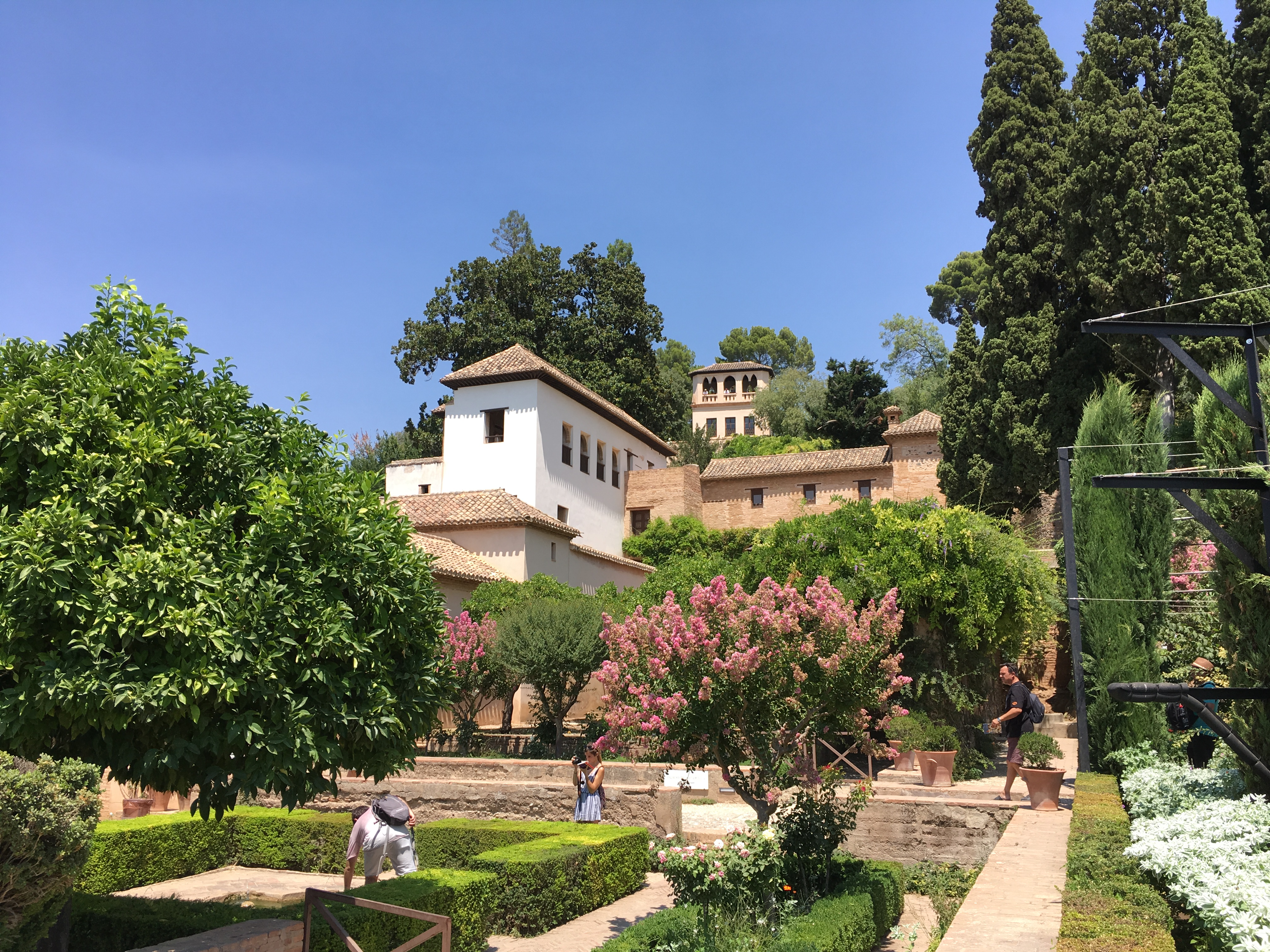 Generalife Gardens, Granada (Spain) Аҧсшәа: Jardines del Generalife, Granada (Spain)